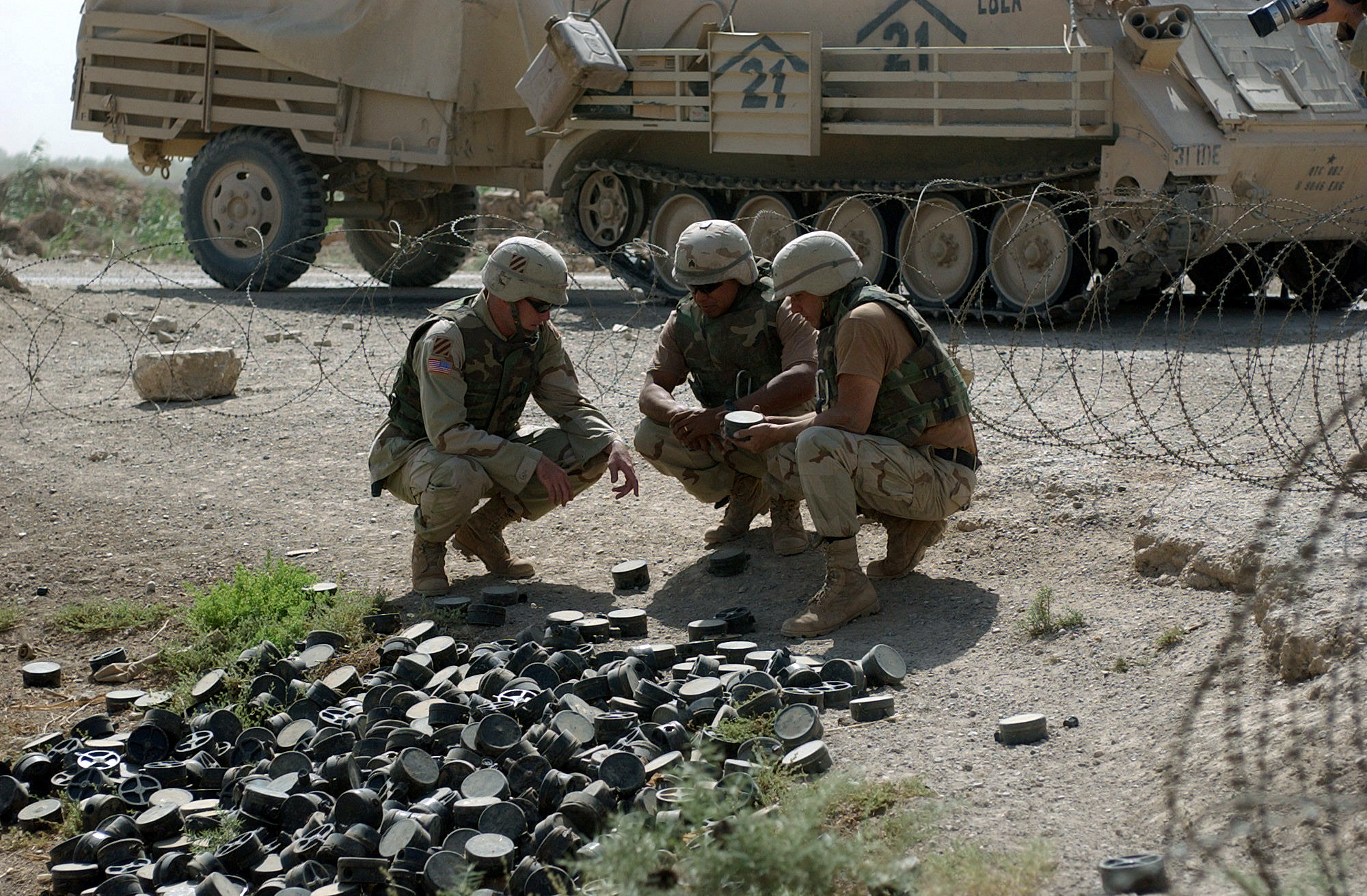 US Army (USA) Staff Sergeant Joe Robsky, 759th Explosive Ordnance Disposal (EOD), shows two USA Soldiers assigned to A/Company, 10th Engineers Battalion, 2nd Brigade, 3rd Infantry Division (Mechanized), where the fuse is located on an Iraqi PMN Anti-Personnel (AP) mine, while working to clear an area where a large number of them were found outside of Fallujah, Iraq, during Operation IRAQI FREEDOM.